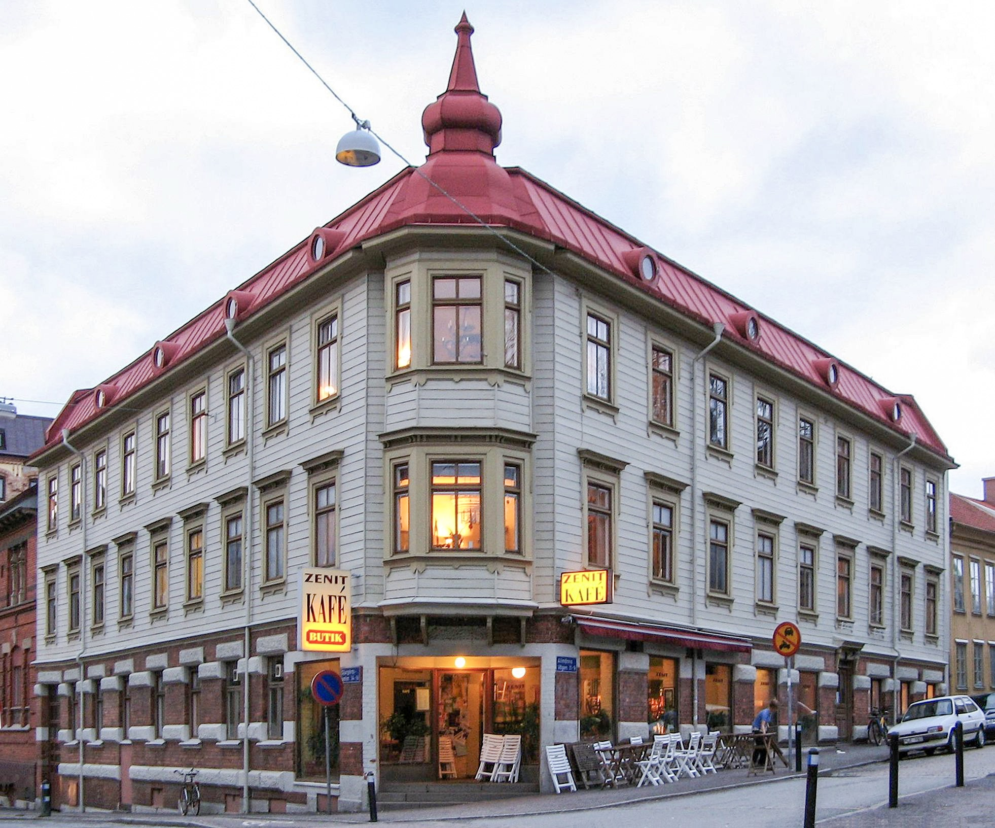 Photo: Thomas Höjemo. Café Zenit in Majorna, Göteborg. Built 1894.